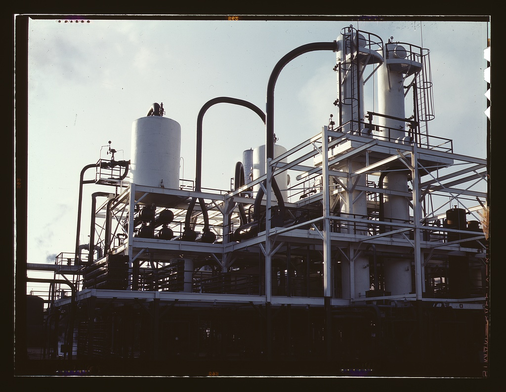 Title: De-waxing plant at Mid-Continent refinery, Tulsa, Okla.